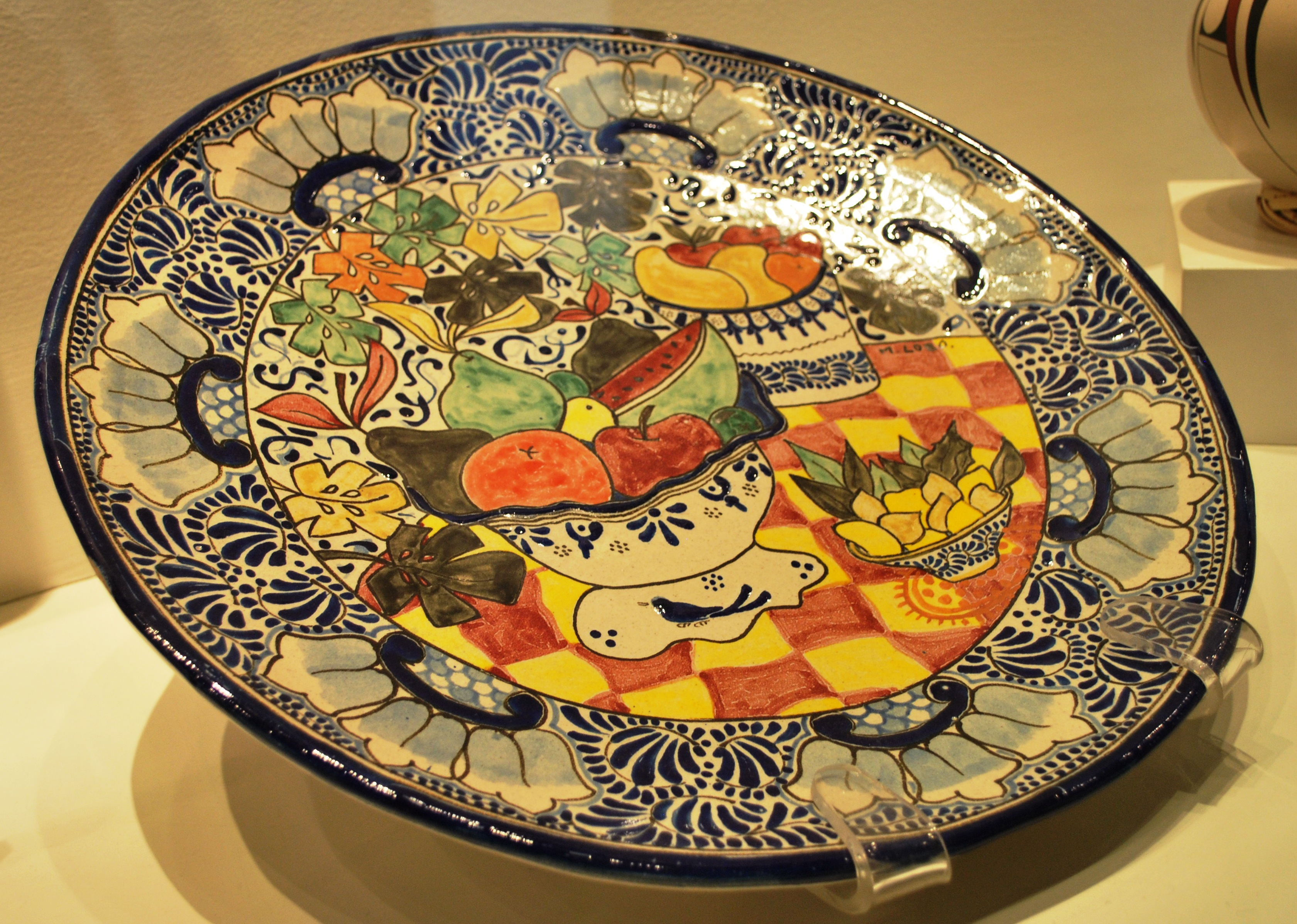 Talavera plate by the artist Marcela Lobo from the Uriarte workshop in Puebla, Mexico on display at the Museum of Artes Populares in Mexico City